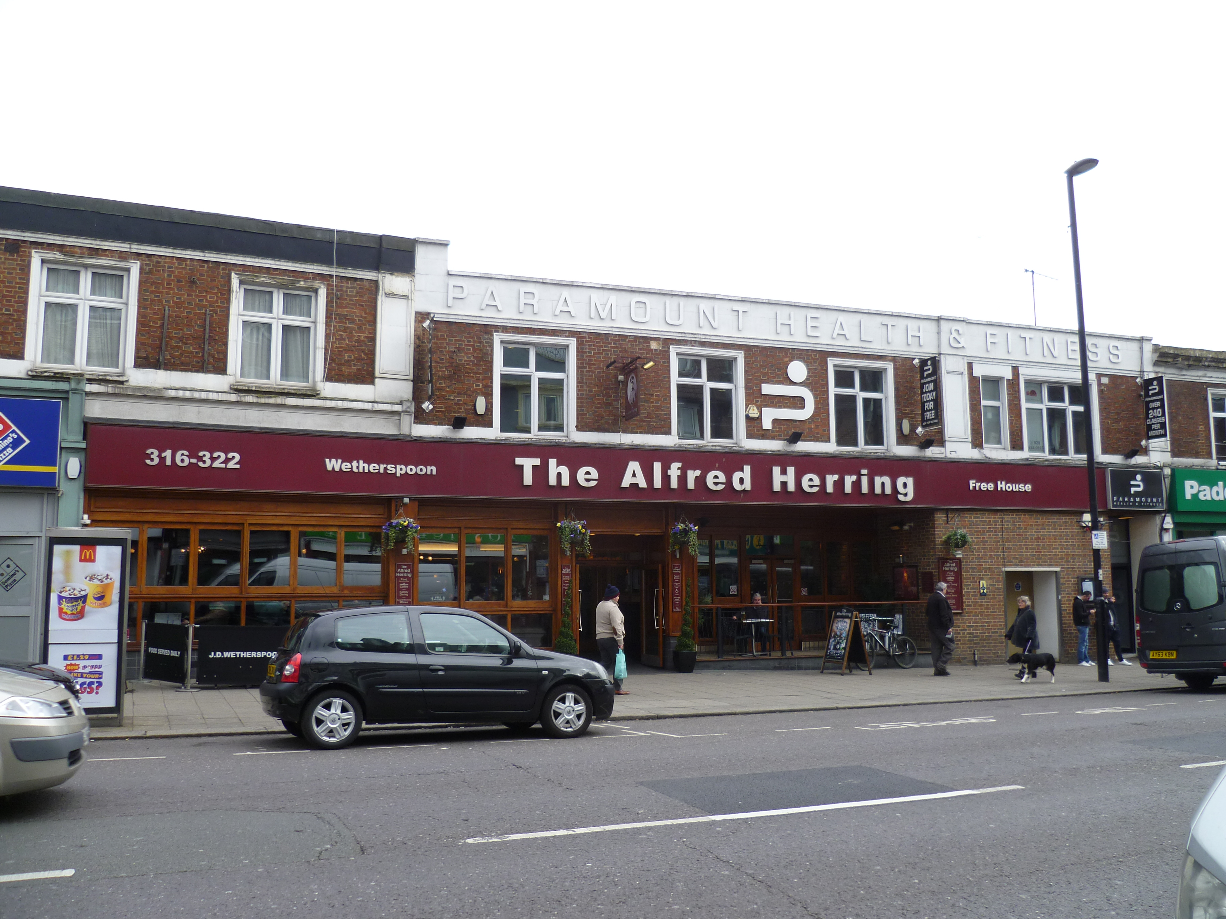 London